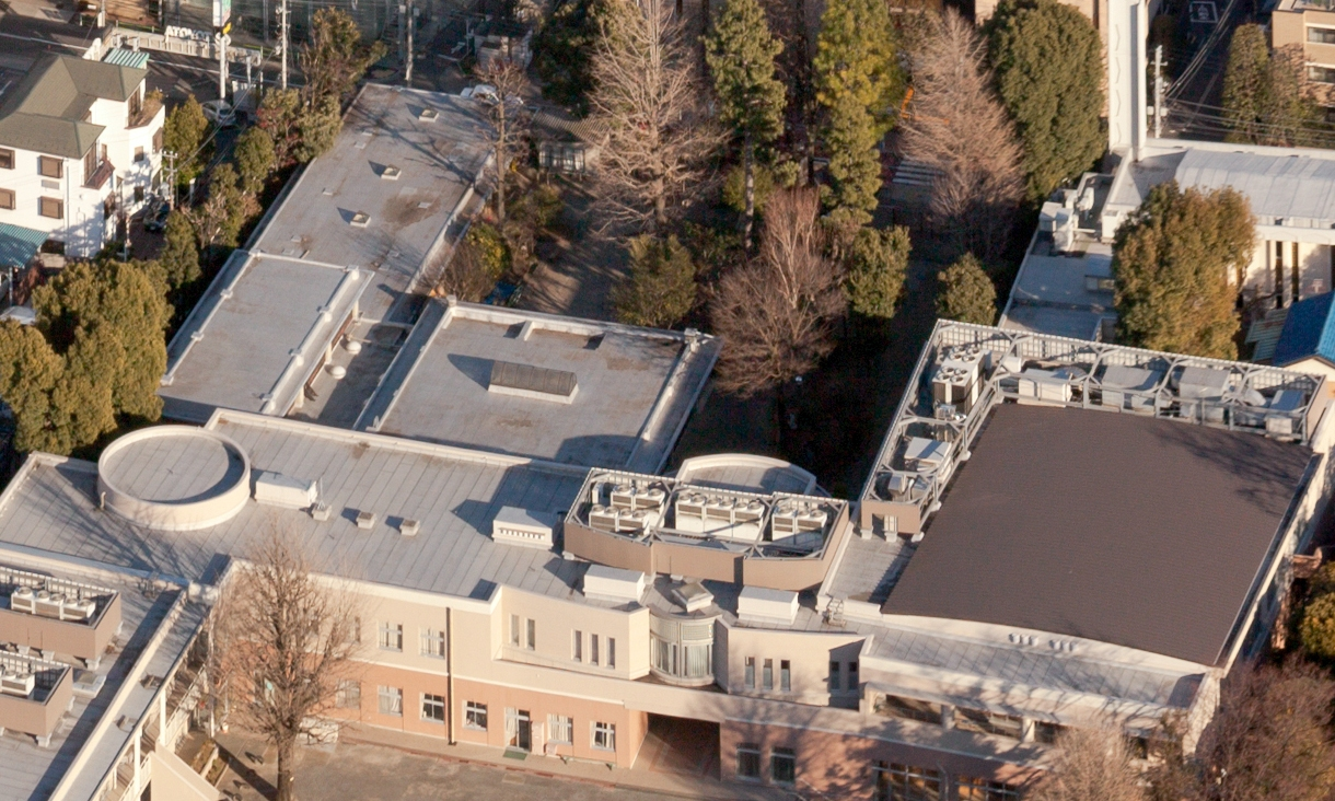 Toyo Eiwa Jogakuin yochien and primary school, Roppongi, Tokyo 東洋英和女学院 幼稚園、小学部（小学校）、東京・六本木